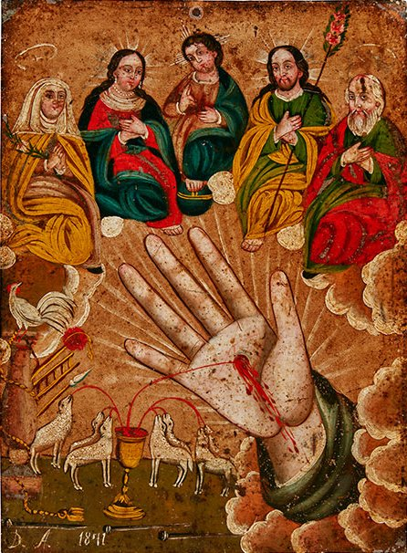 The Hand of God (Mano Poderosa) oil on tin retablo by Donanciano Aguilar, 1871, 13 x 9.5 in, El Paso Museum of Art, accession 2014.17.393